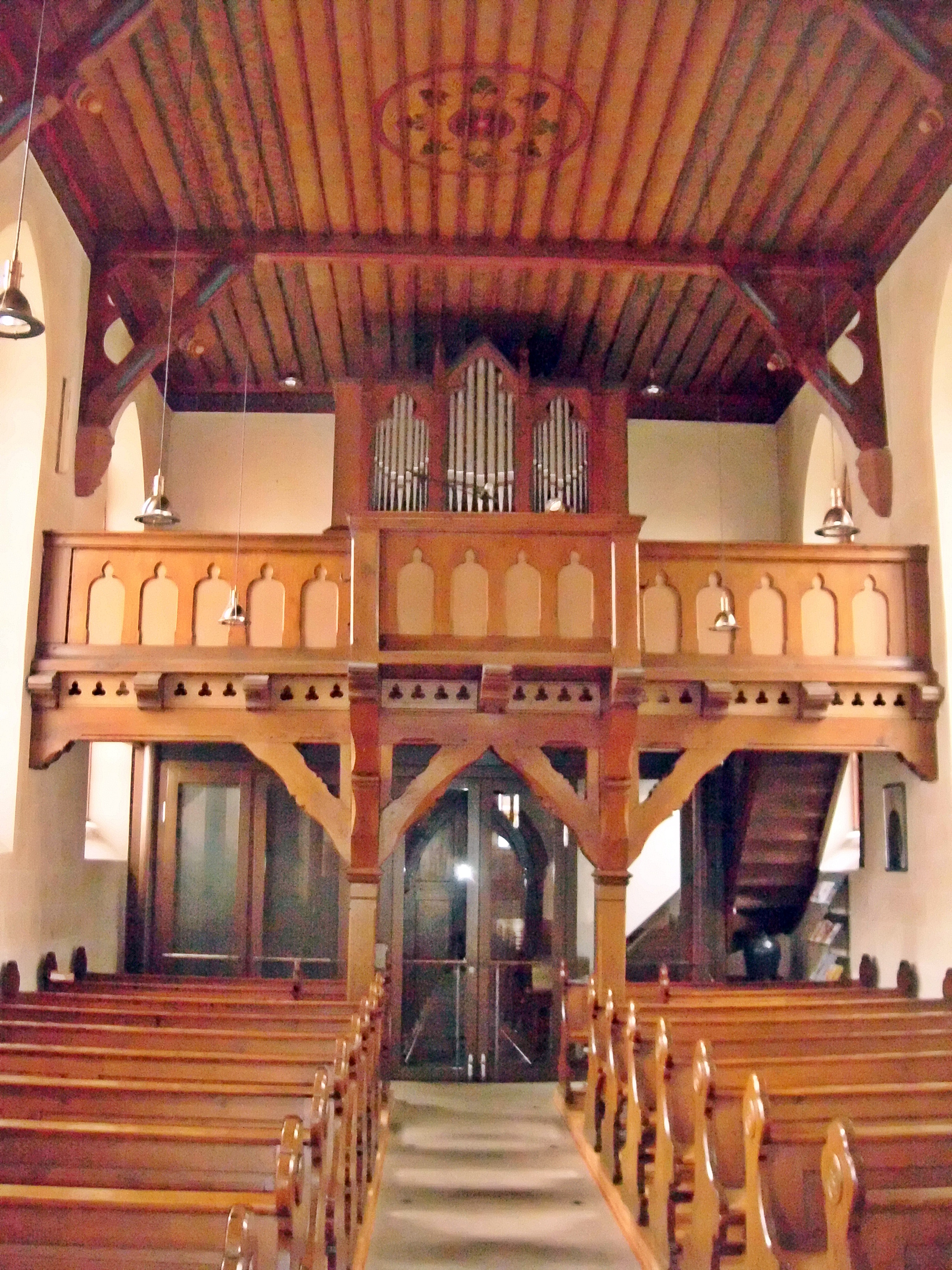 Kath. Kirche St. Stephan, Grünstadt-Sausenheim